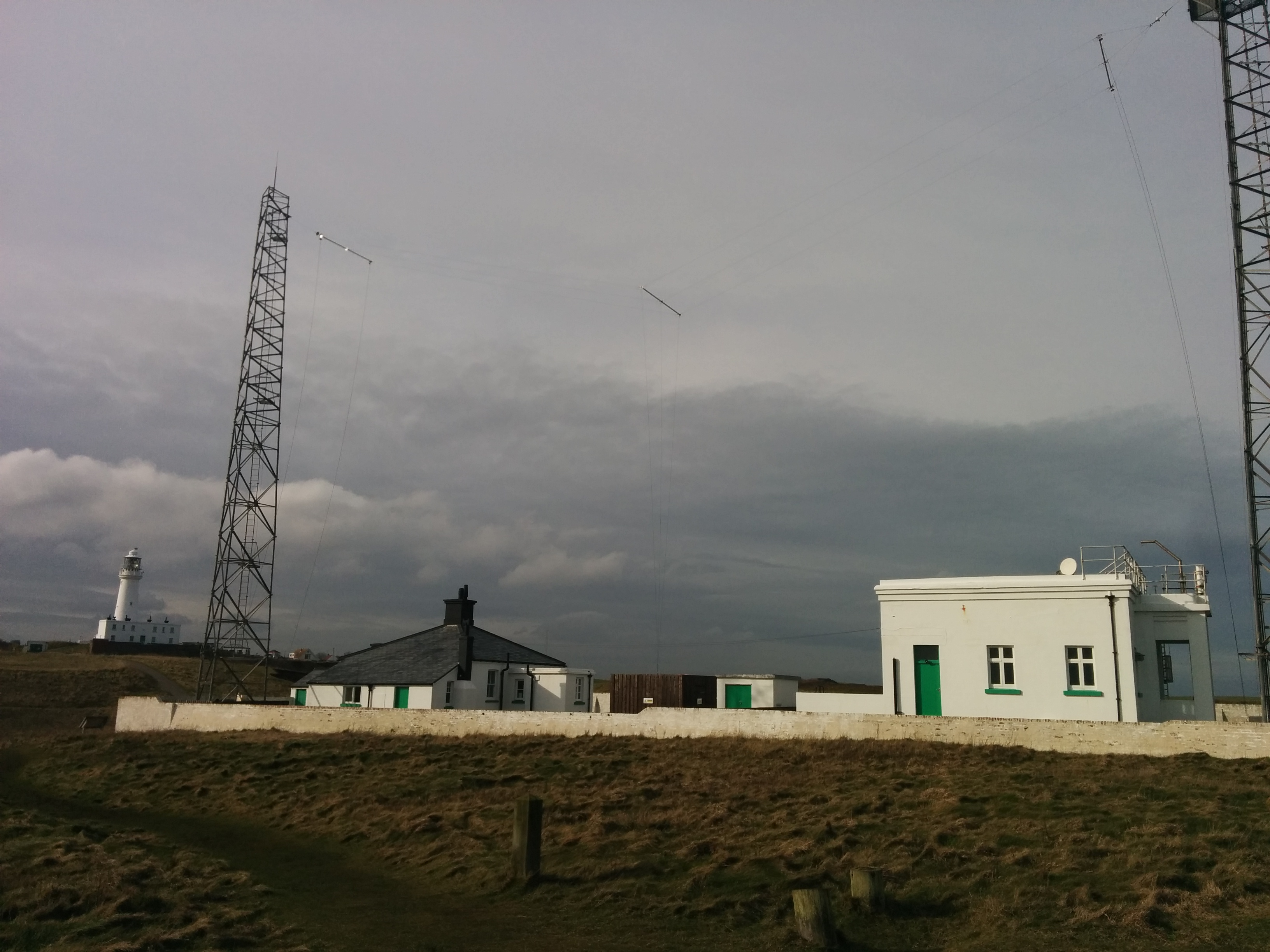 Fog signal station near Coastguard and Flamborough lighthouse, Flamborough, East Riding of Yorkshire, England.